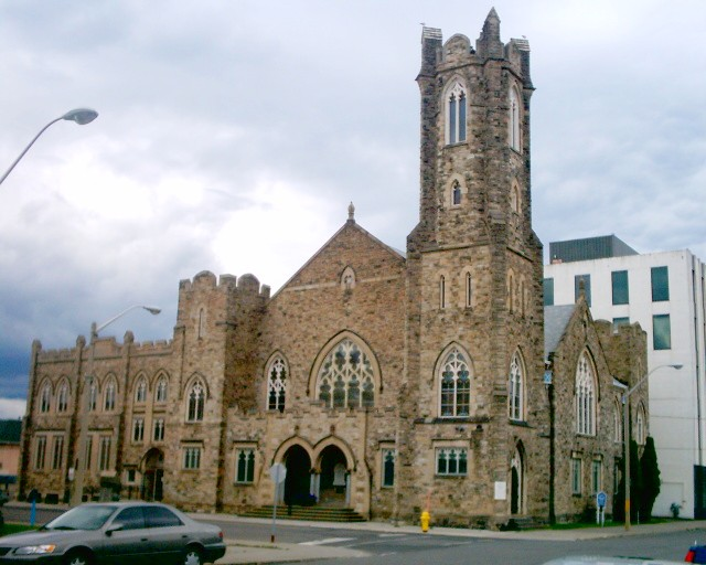 St. Andrews Presbyterian Church in Thunder Bay, Ontario Template:Ontario Heritage Trust Register